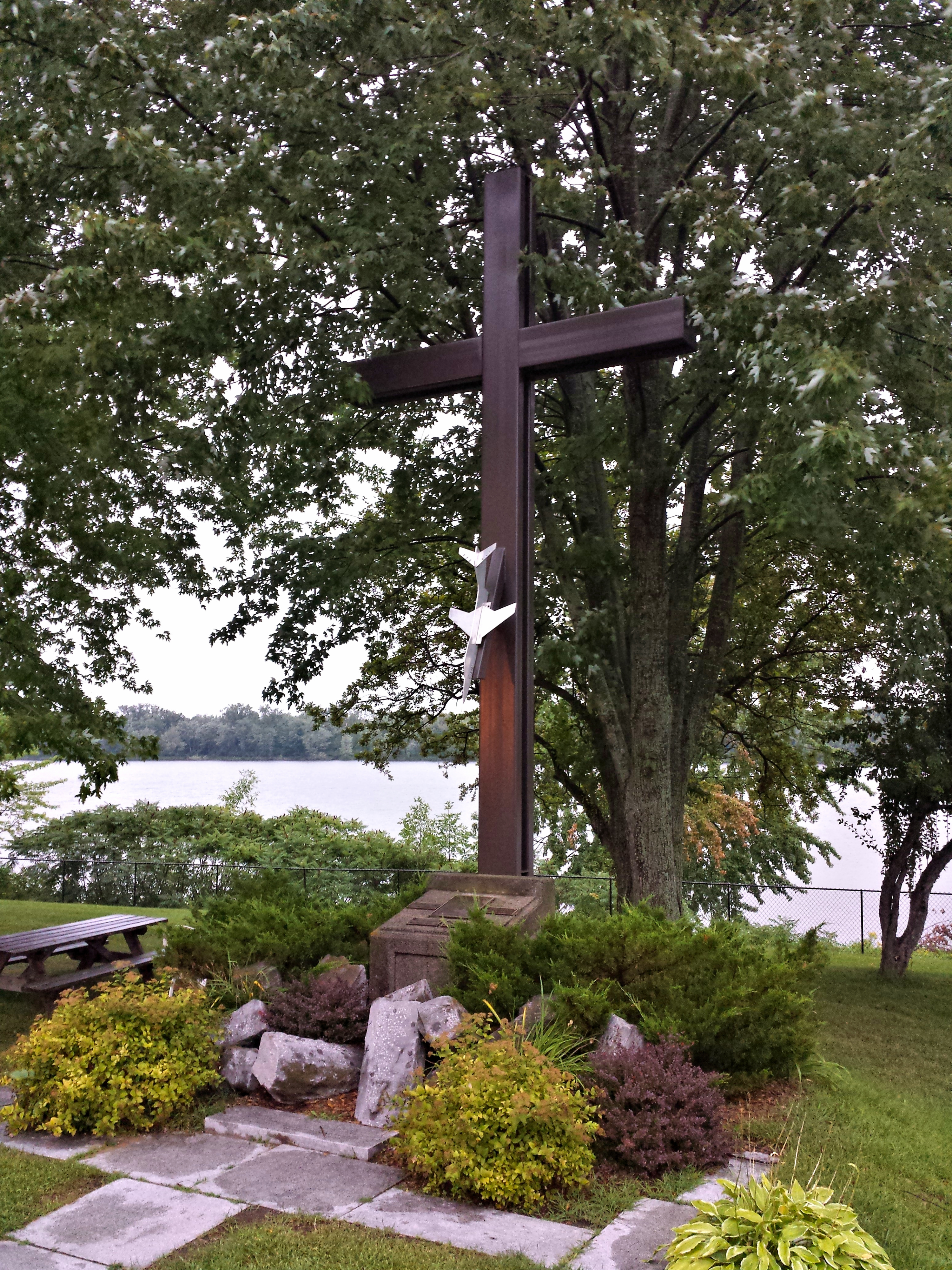 Convent Crash memorial, Orleans, Ottawa, Ontario, Canada